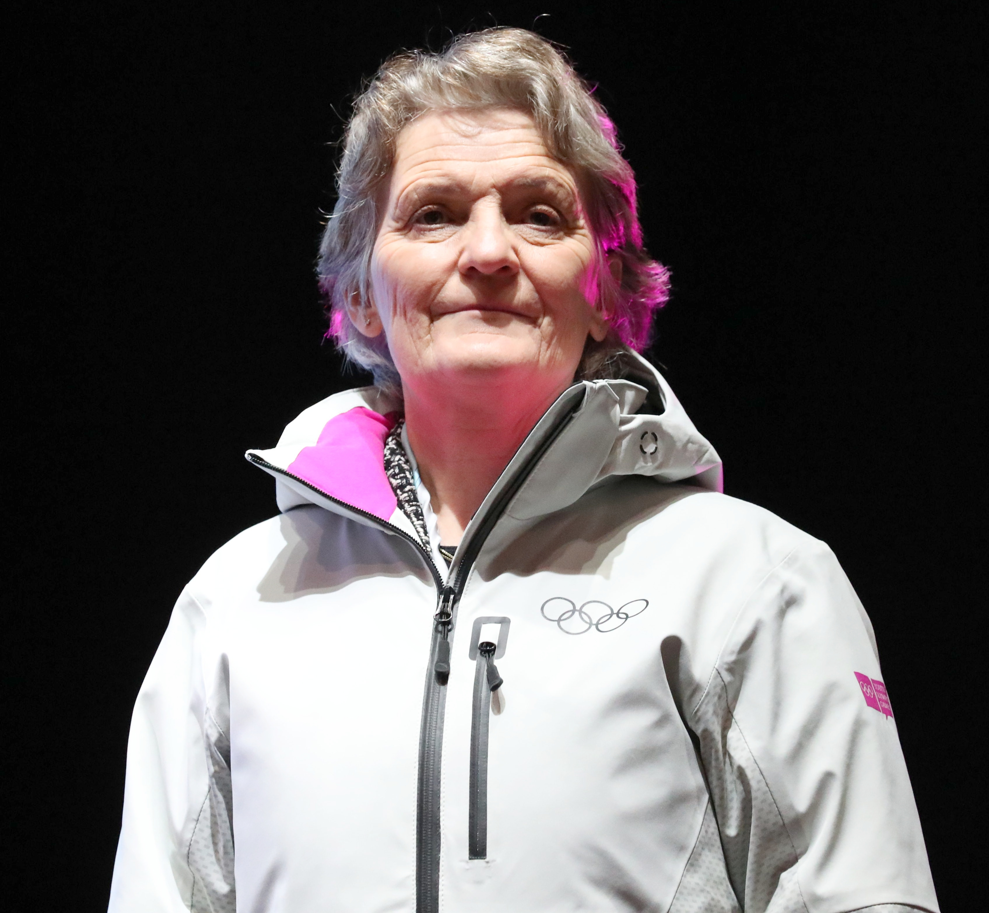 Medal Ceremony Day 1, 2020 Winter Youth Olympics in Lausanne - Kristin Kloster Aasen